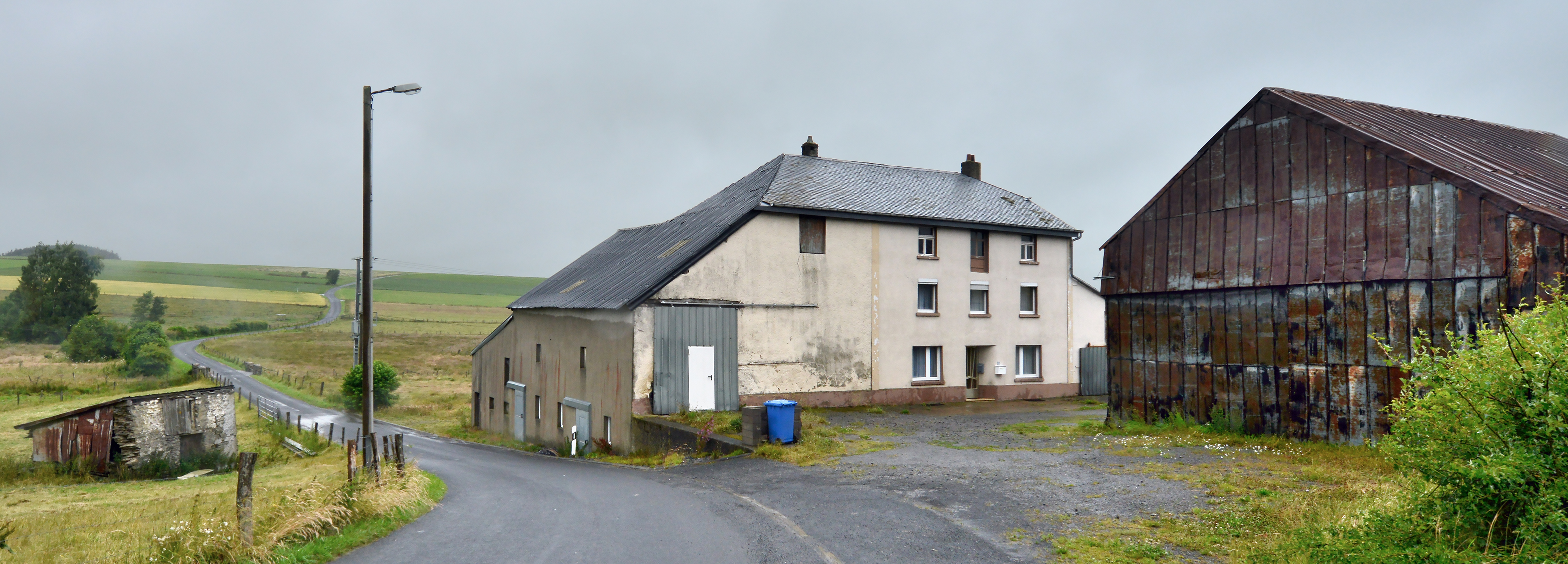 Farmhouse Lehresmuhle (ancient mill) in the commune of Wincrange, Luxembourg.